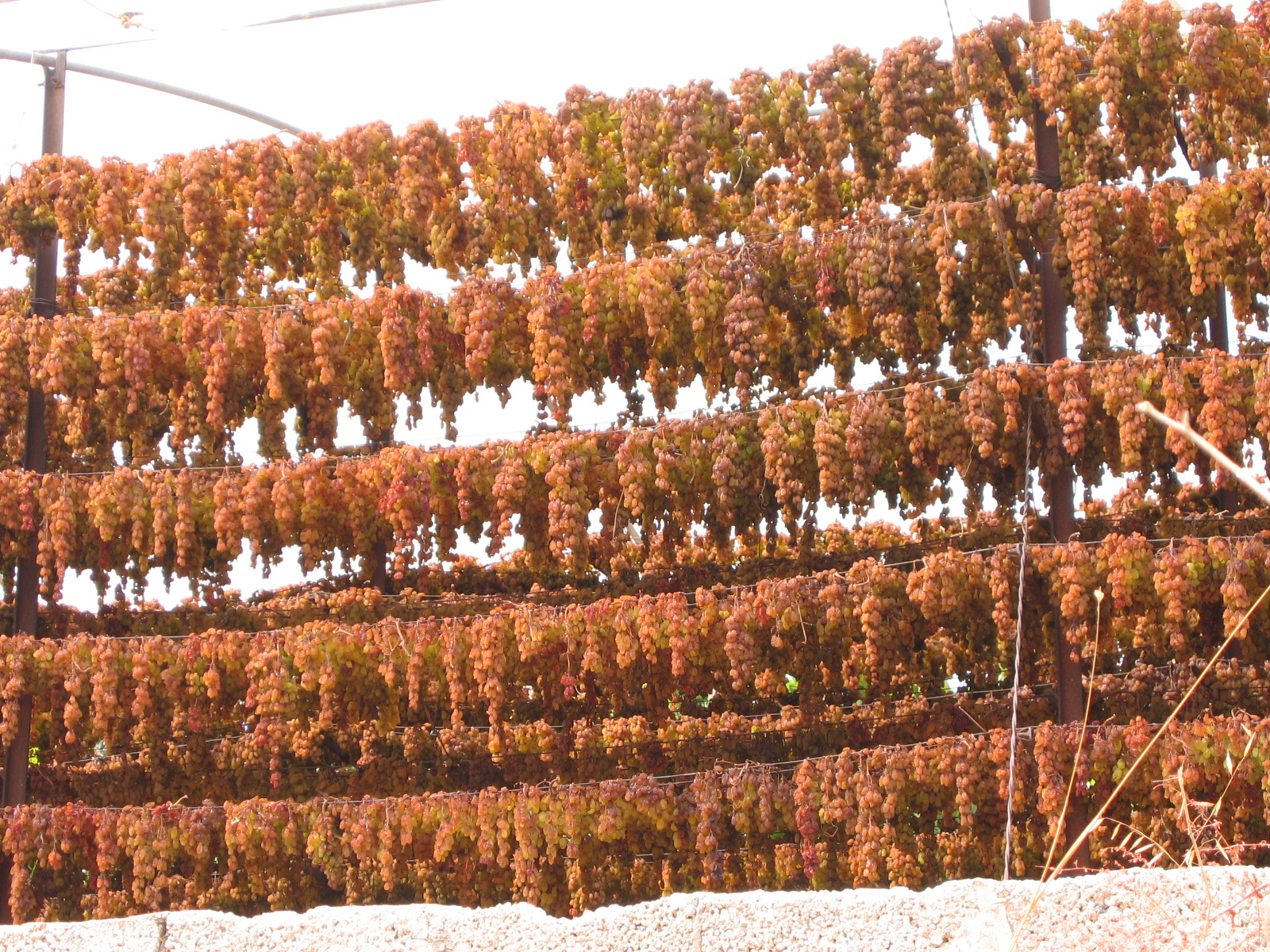 Grapes becoming raisins as they dry in the sun. Photo taken on Crete near Knossos.